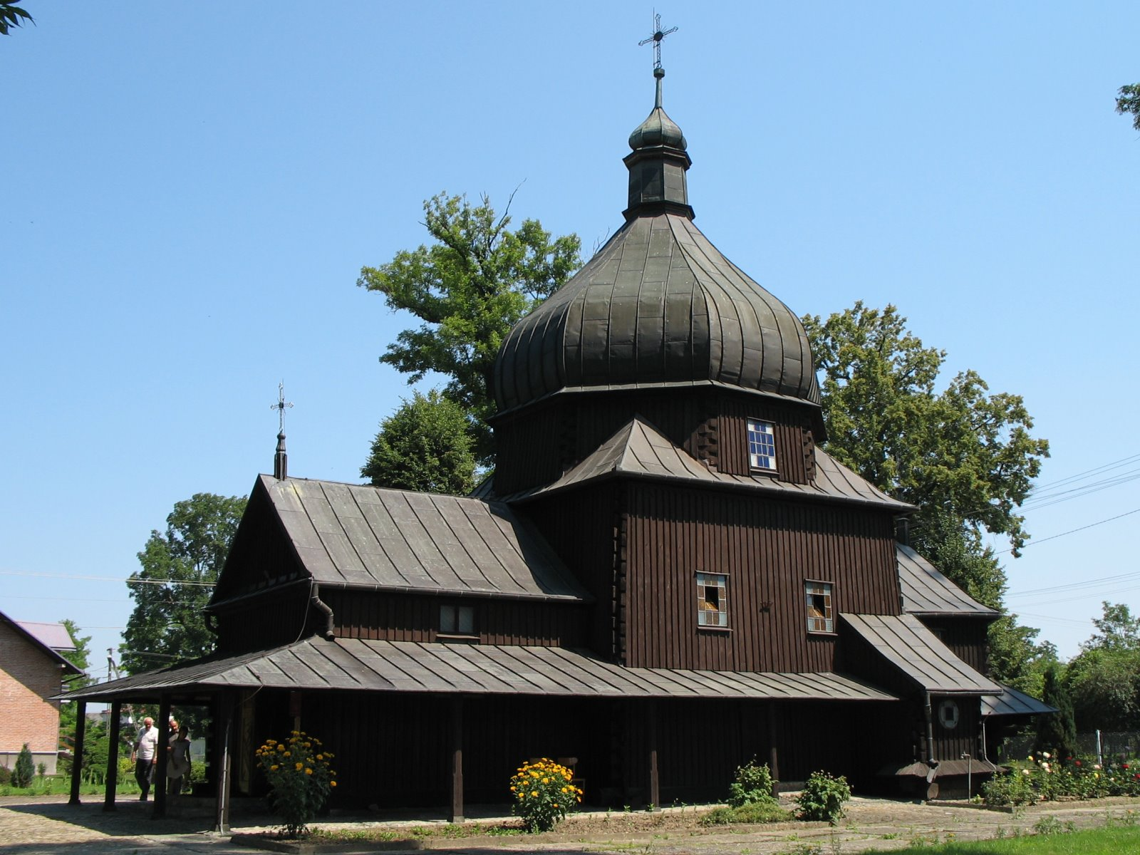 Former Greek Catholic church in Leszno, Subcarpathian Voivodeship